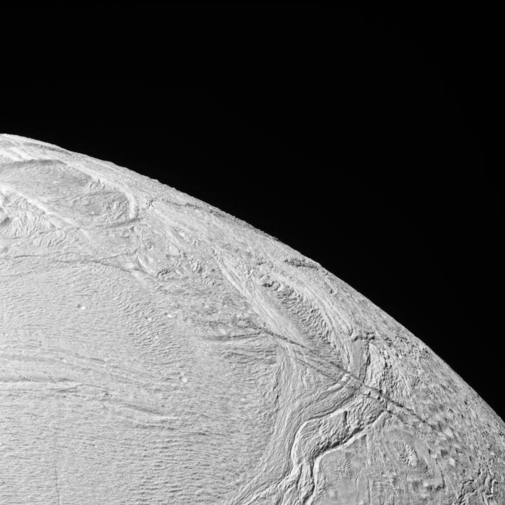 Like a well-carved snowball Courtesy NASA/JPL-Caltech